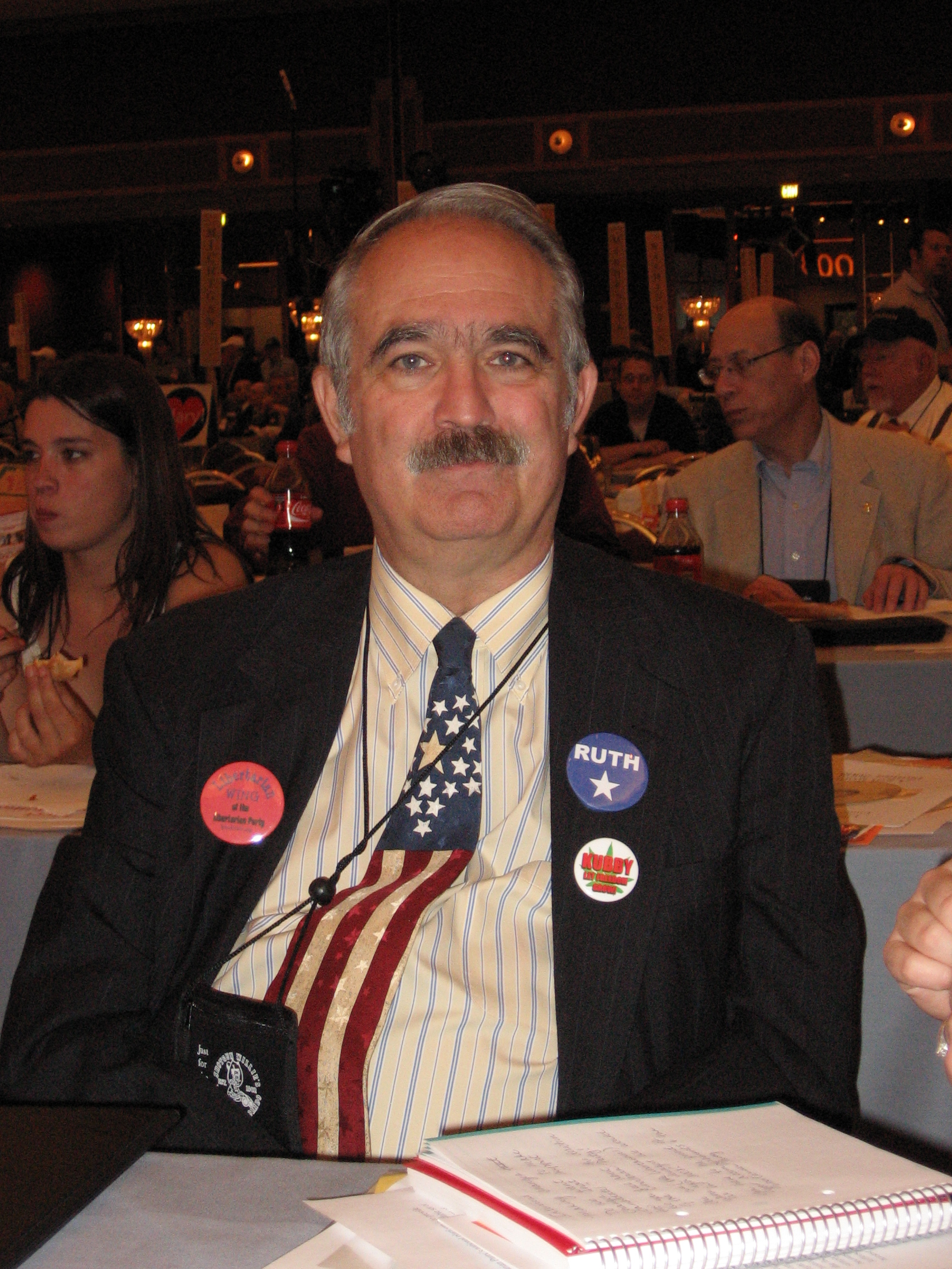 Taken by MarcMontoni at LP national convention in 2008.